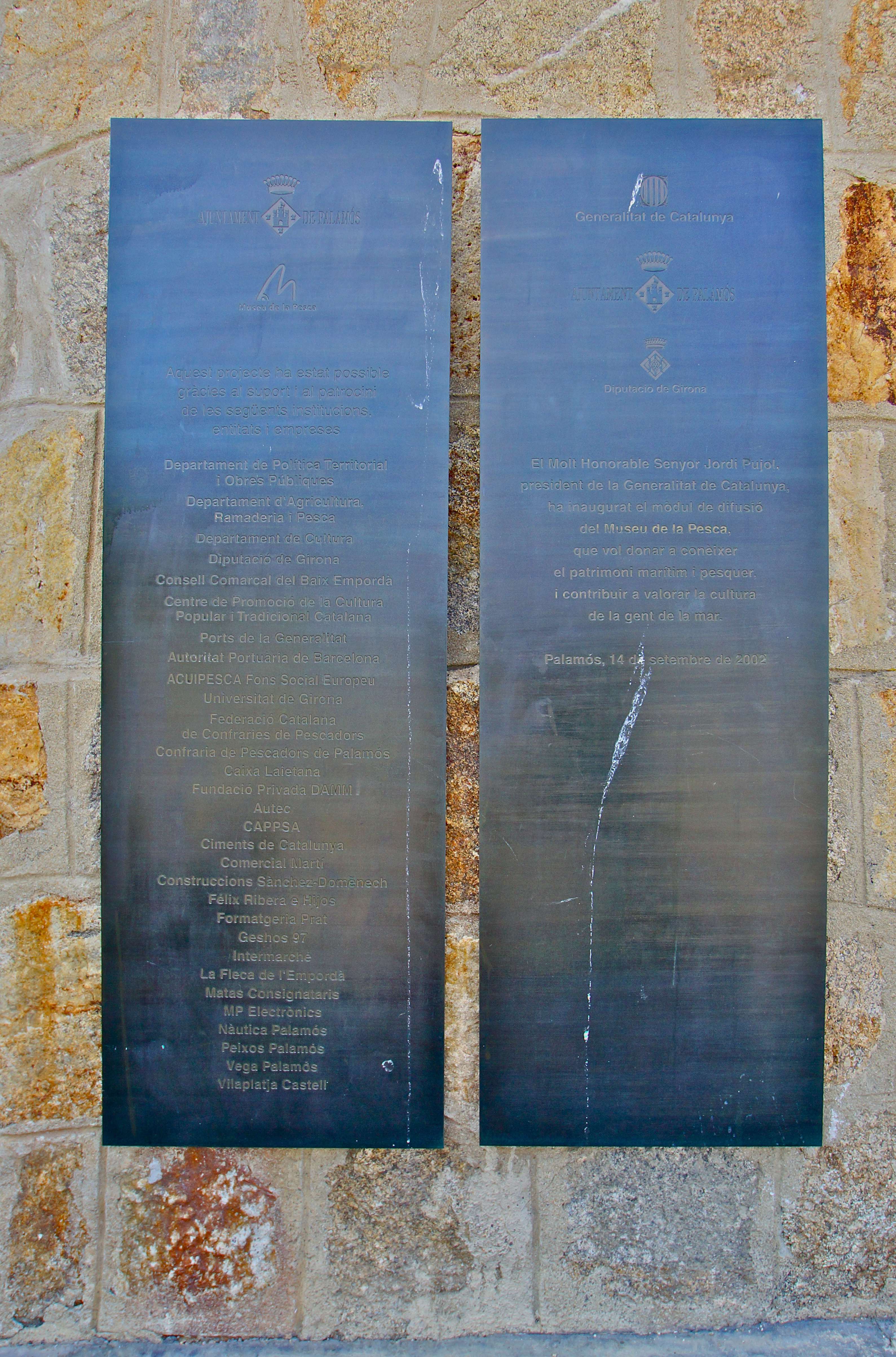 Palamós, Catalonia: Fishery Museum, plaque commemorating the museum's opening on 14.09.2002 by Jordi Pujol i Soley